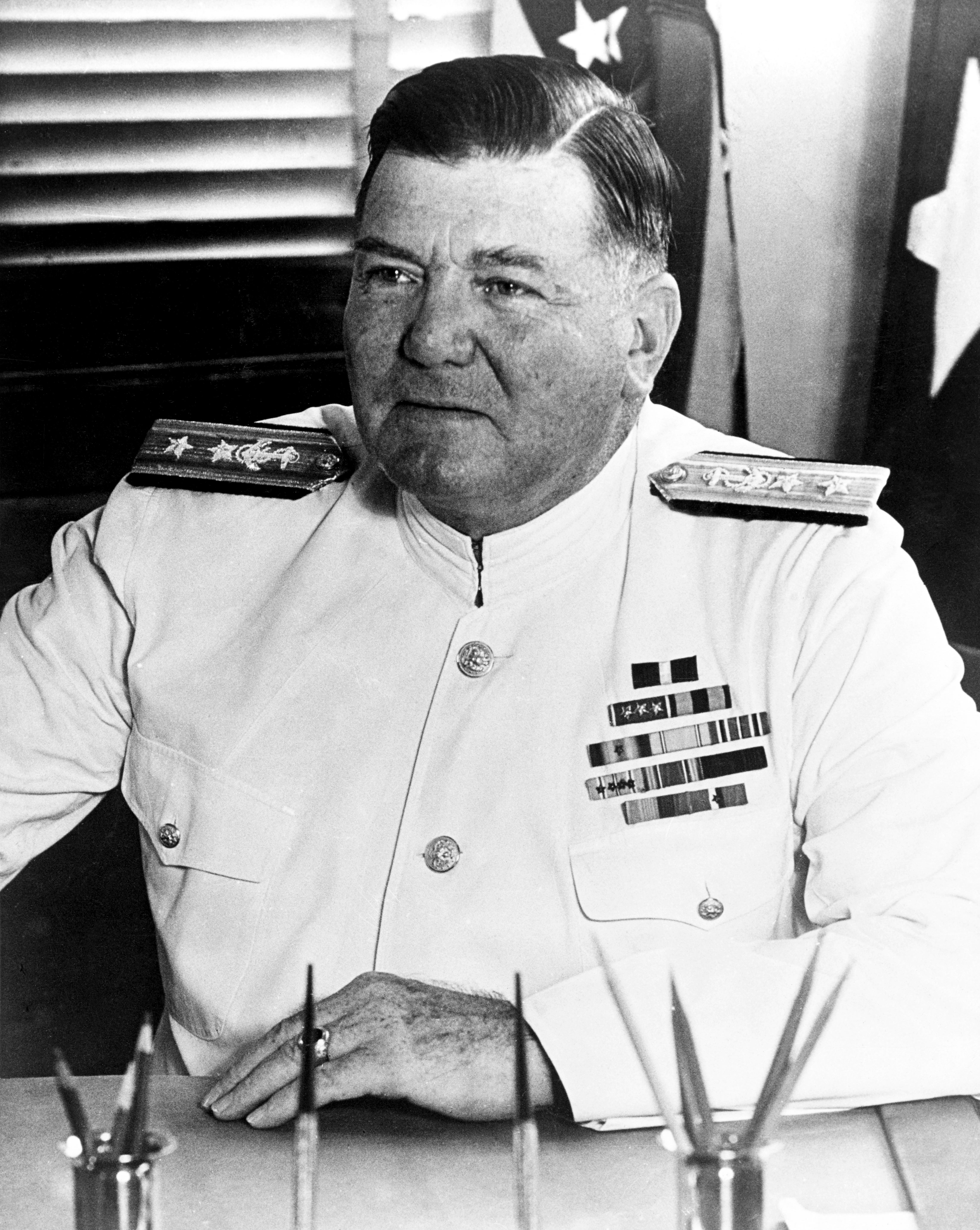 A World War II period photograph taken after October 1945.